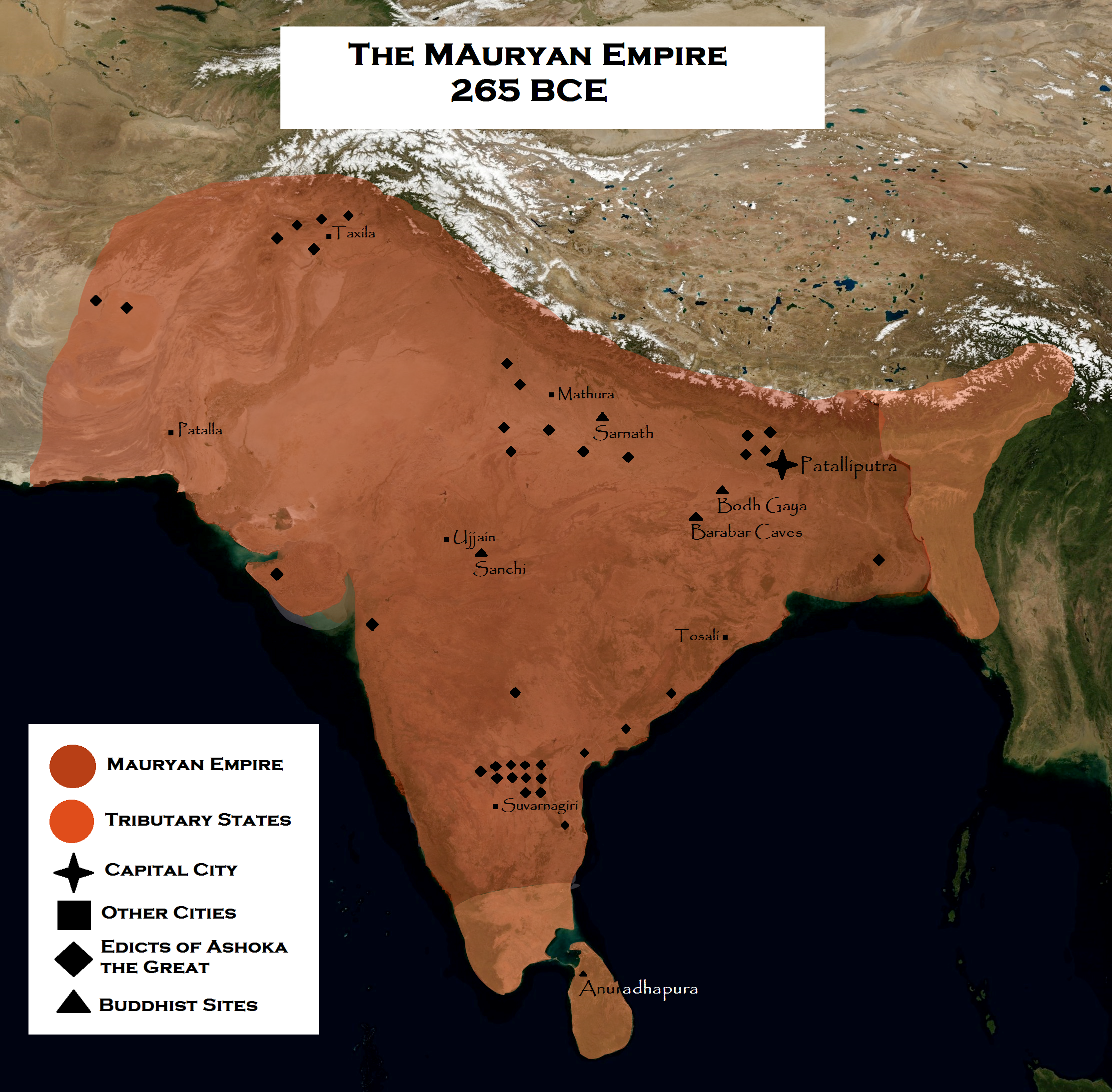 The Mauryan Empire at it's greatest extent.